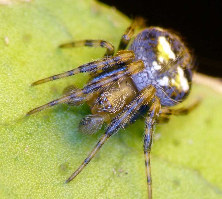 Araneus albotriangulus Facing, showing palps. It looks as though it might be one moult away from maturity.